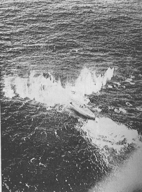 U 71 under attack by Sunderland U. of No. 10 Squadron R.A.A.F. on 5th June 1942. The U-Boat dived when sighted, and was forced to the surface by depth charges. The Sunderland then engaged with machine guns, as can be seen in the photograph.